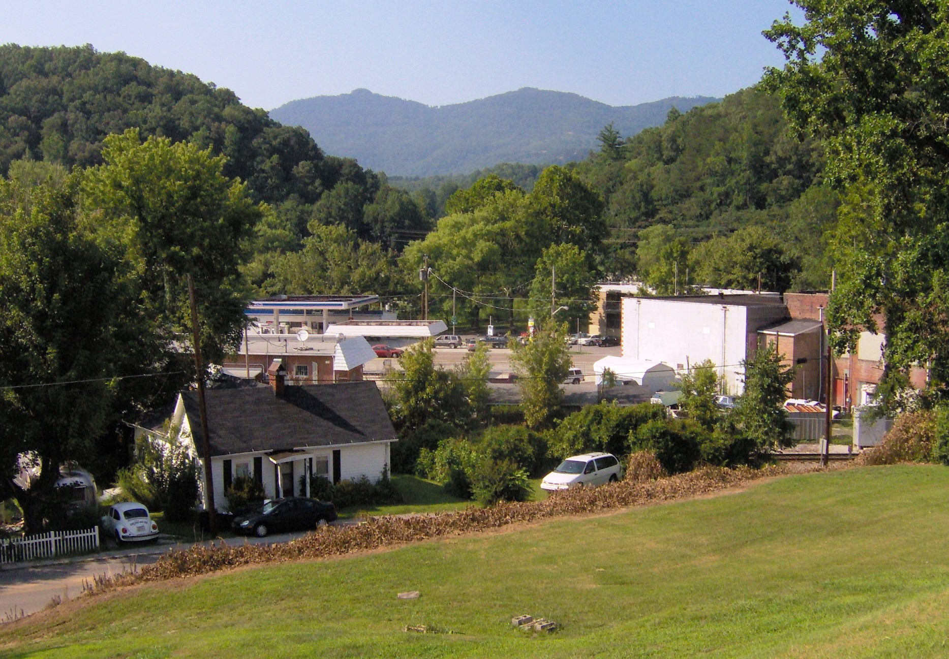 Looking west across Oliver Springs, Tennessee, in the southeastern United States. Walden Ridge, the eastern escarpment of the Cumberland Plateaus, rises in the distance.